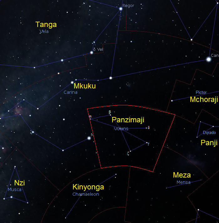 Constellation Volans as seen from Tanzania, Swahili labeled Kiswahili: Kundinyota Panzimaji (Volans) jinsi inavyoonekana kutoka Tanzania, majina ya Kiswahili - Kilatini